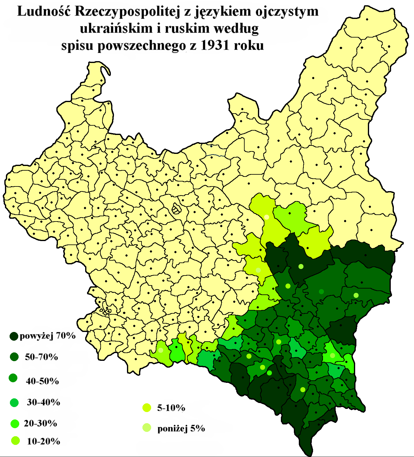 Ukrainian and Ruthenian language frequency in Poland, based on Polish census of 1931